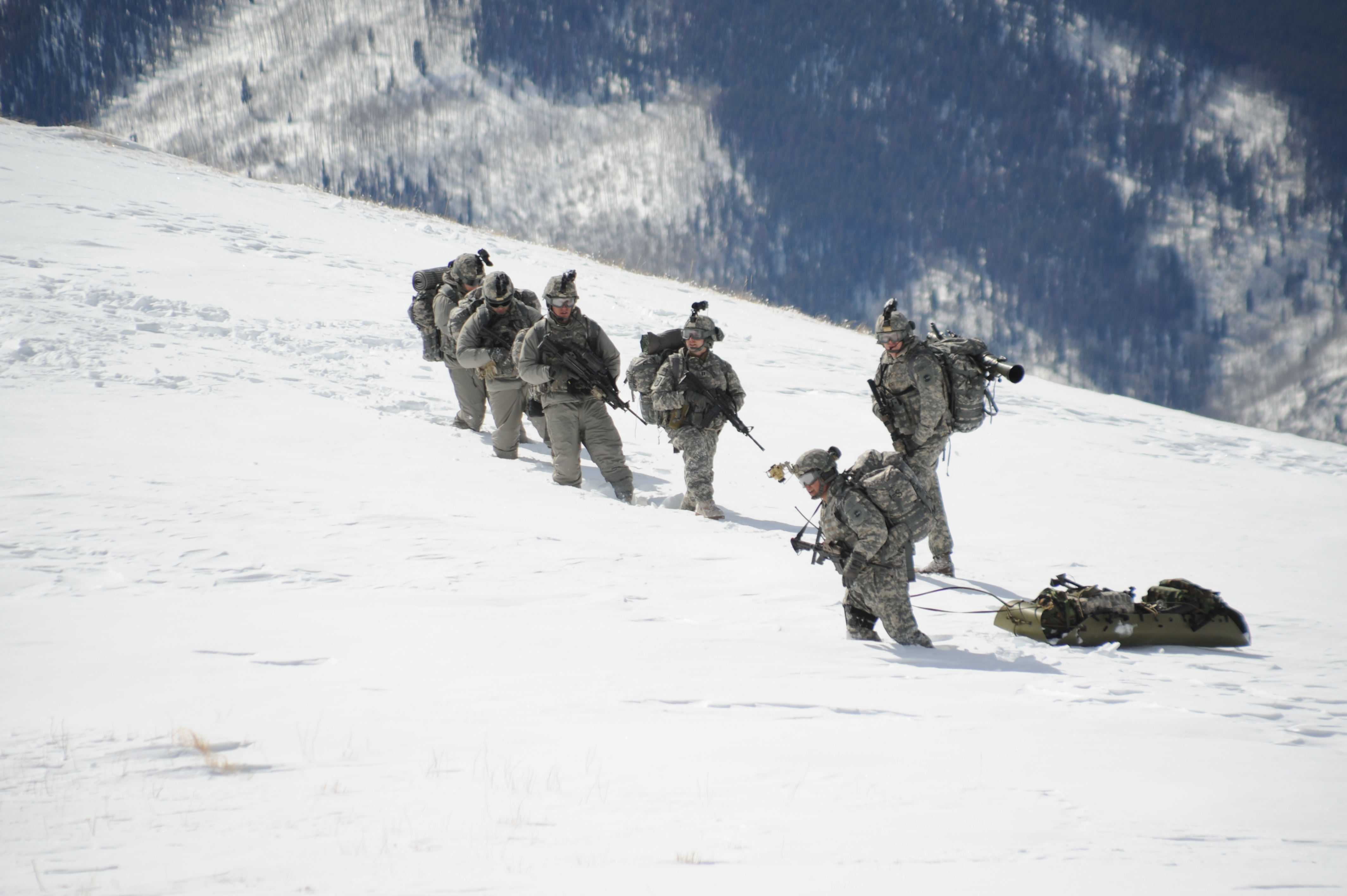 Provides Soldiers a multi-layered, versatile insulating system adaptable to varying operational and environmental conditions. The Generation III Extended Cold Weather Clothing System (GEN III ECWCS) allows the Soldier to adapt to varying mission requirements and environmental conditions. Utilized materials offer a greater range of breathability and environmental protection, providing greater versatility in meeting Soldiers' needs. GEN III ECWCS utilizes an innovative design that reduces bulk; it takes up 33 percent less space and weights 25 percent less that its predecessor systems. Each piece of GEN III ECWCS functions either alone or in concert with other components as a system. This provides more options for the Soldier and enables seamless integration with load-bearing equipment and body armor configurations. The Gen III ECWCS design allows moisture to escape and at the same time has water-resistant properties. GEN III ECWCS is a 12-piece kit that enables Soldiers to utilize seven different layers, depending on the mission and environment. The system functions through insulation, layering and ventilation. Insulation resists the transmission of heat, traps air and wicks moisture away from the body. Layering increases air space and allows easy adjustment to a Soldier's activity level. Ventilation allows moisture to escape. By mixing and matching Gen III ECWCS components, Soldiers can protect themselves from temperatures ranging from 40 degrees Fahrenheit to minus 60 degrees Fahrenheit. Learn more about Program Executive Office (PEO) Soldier at… PEO Soldier website Equipment Portfolio PEO Soldier blog Follow us on… Facebook Twitter YouTube